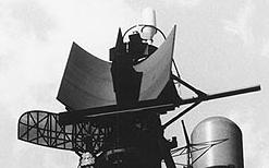 View of the AN/SPS-39 radar aboard the U.S. Navy test ship USS Atlanta (IX-304) at the Hunters' Point Naval Shipyard, San Francisco, California (USA), circa October 1964.